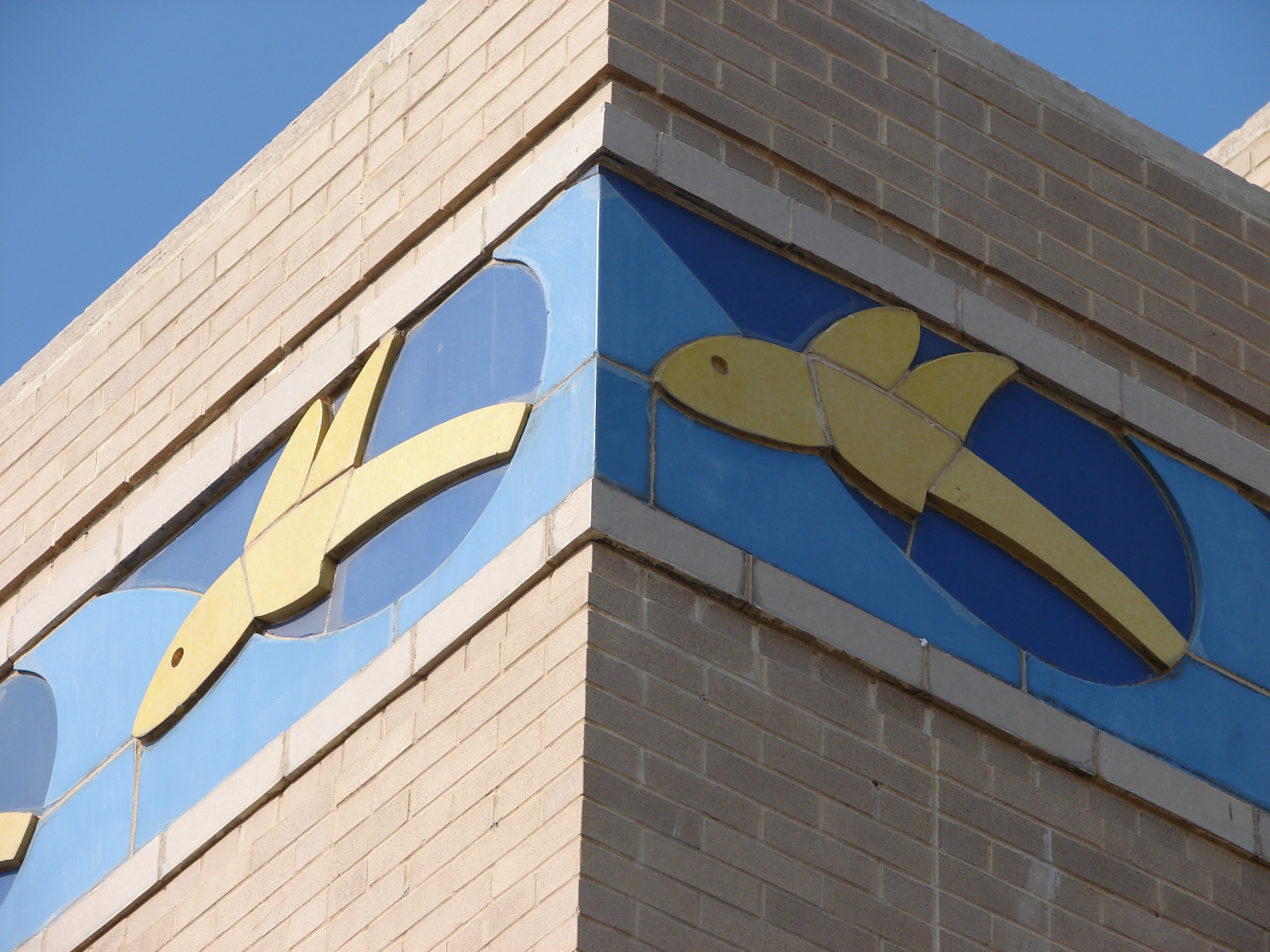 Corner view, Marine Air Terminal, LaGuardia Airport, New York